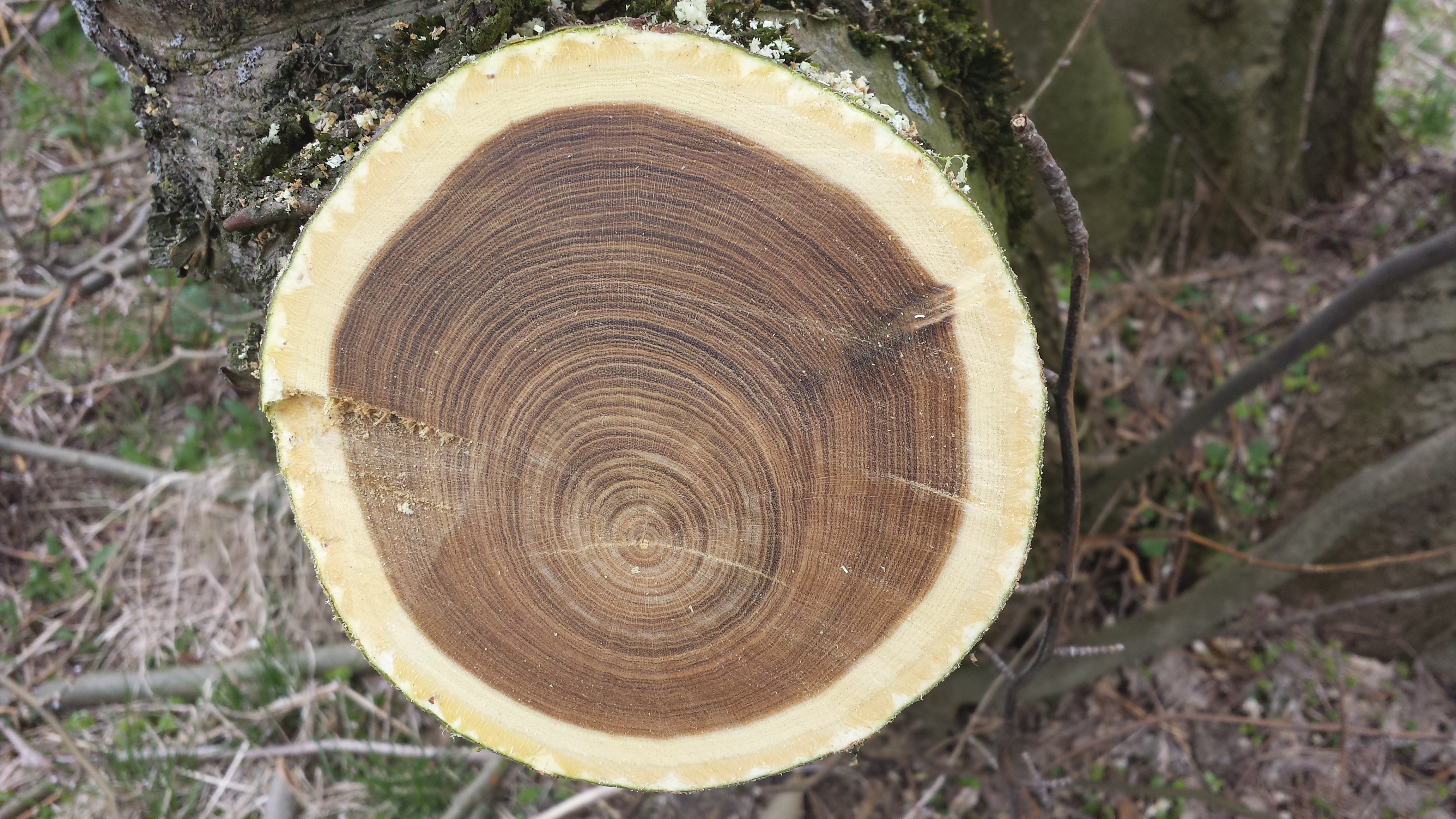 Freshly cross cut Laburnum with heart-wood from the island of Engeloeya in Norway